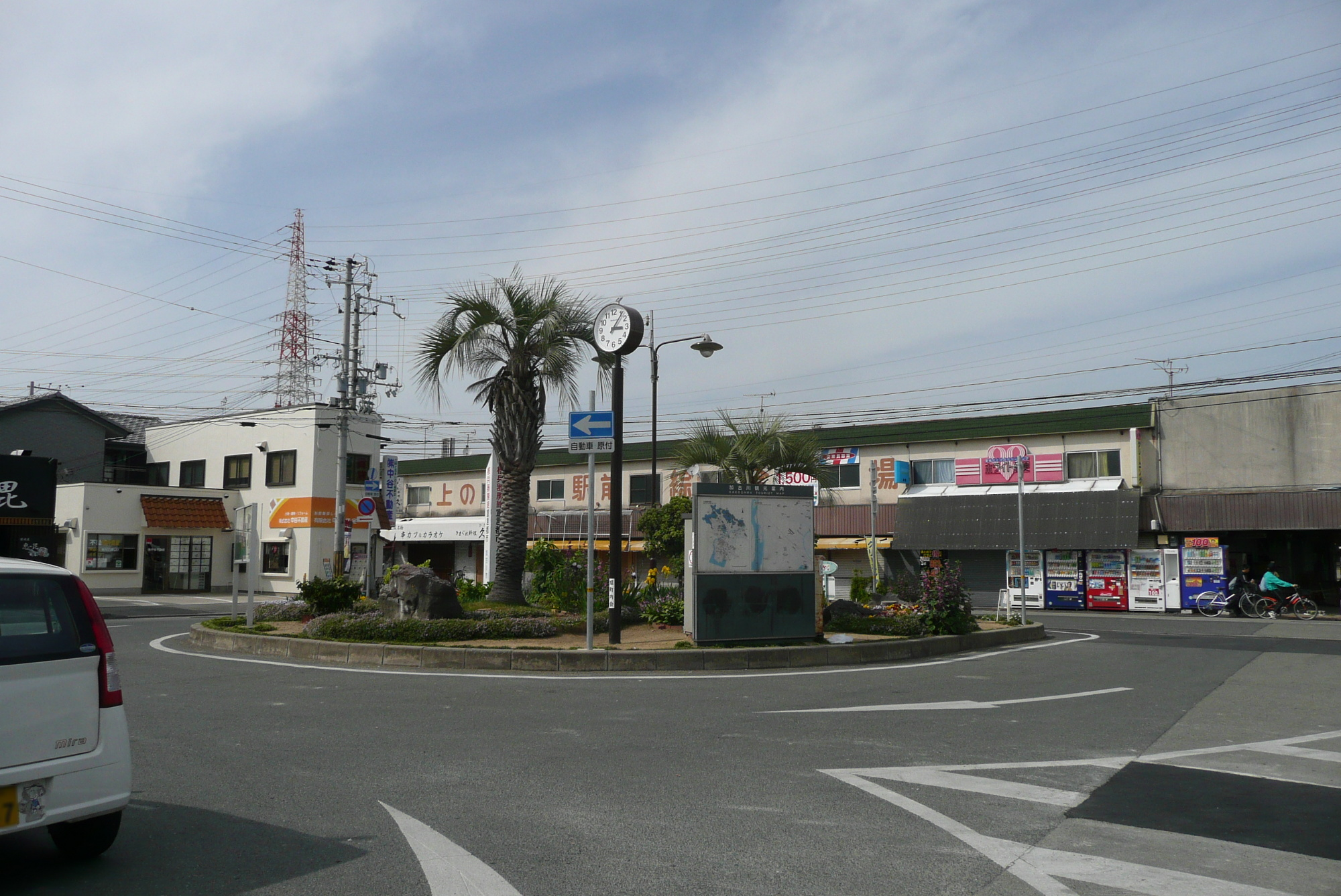 Sanyo Electric Railway,Onoenomatsu Station plaza.